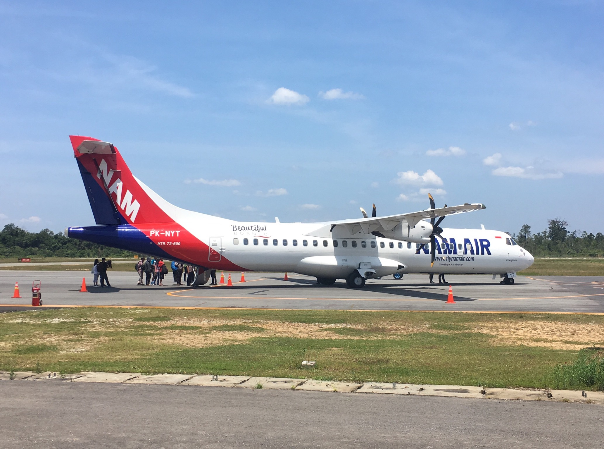 NAM Air ATR 72-600 in Tebelian Airport, Sintang